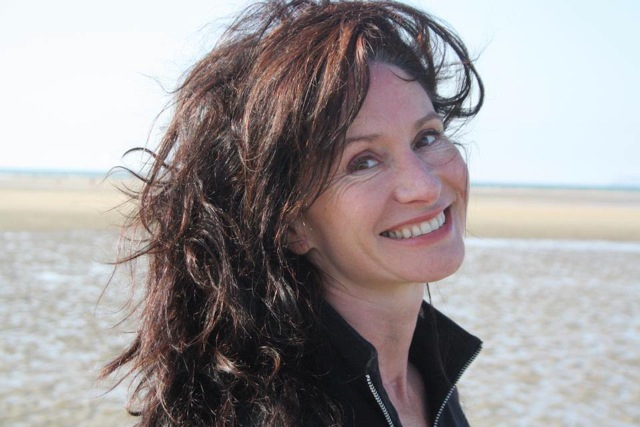 Marion Laine